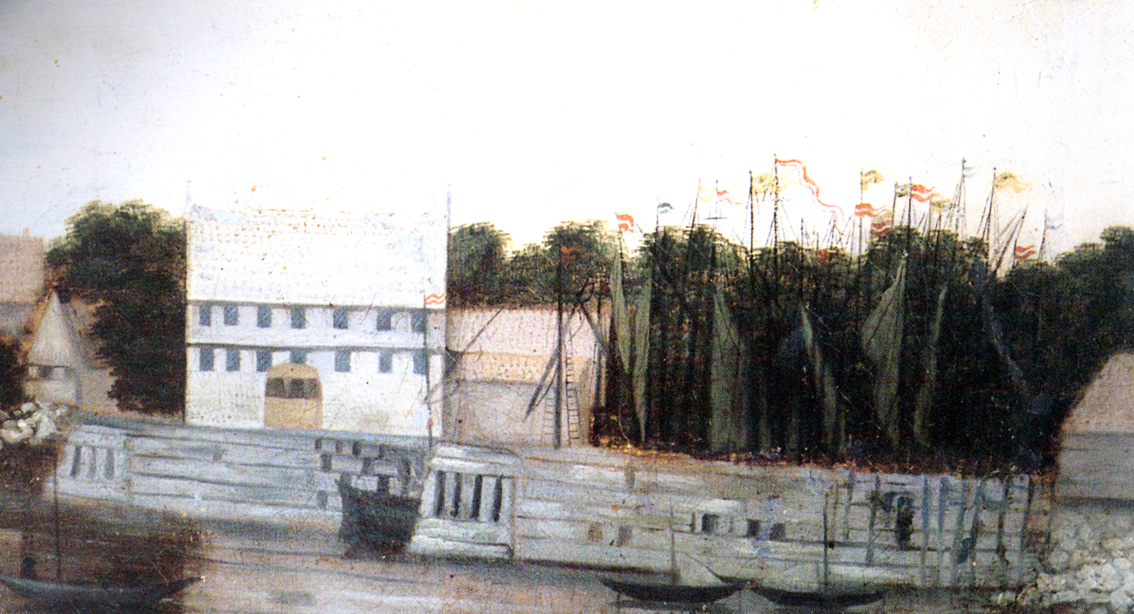 Clipping from a oil painting from the year 1670 showing the harbor of Vegesack near Bremen (Germany) with the Havenhus (“Harbor house”), built 1648.